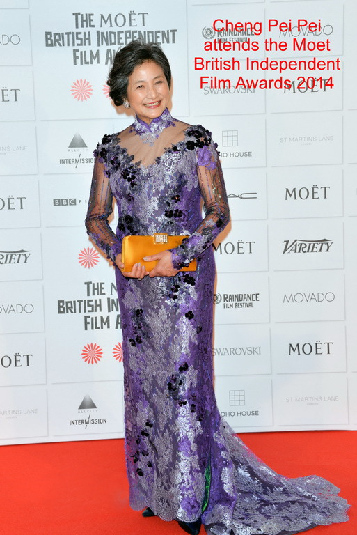 Cheng Pei Pei in London, 2014